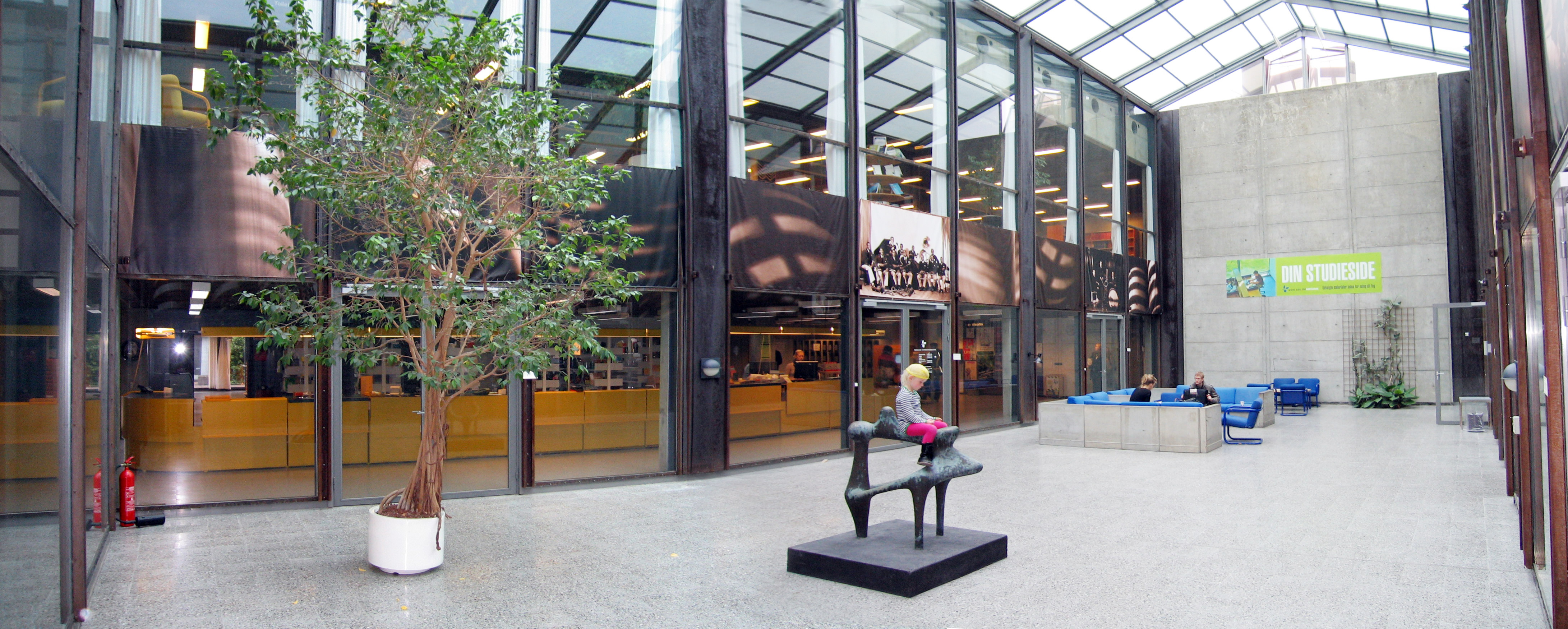 Syddansk Universitetsbibliotek